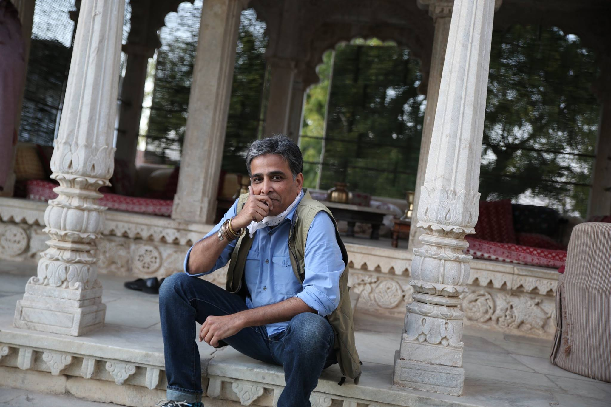 Mayank Chhaya - An Author and Journalist